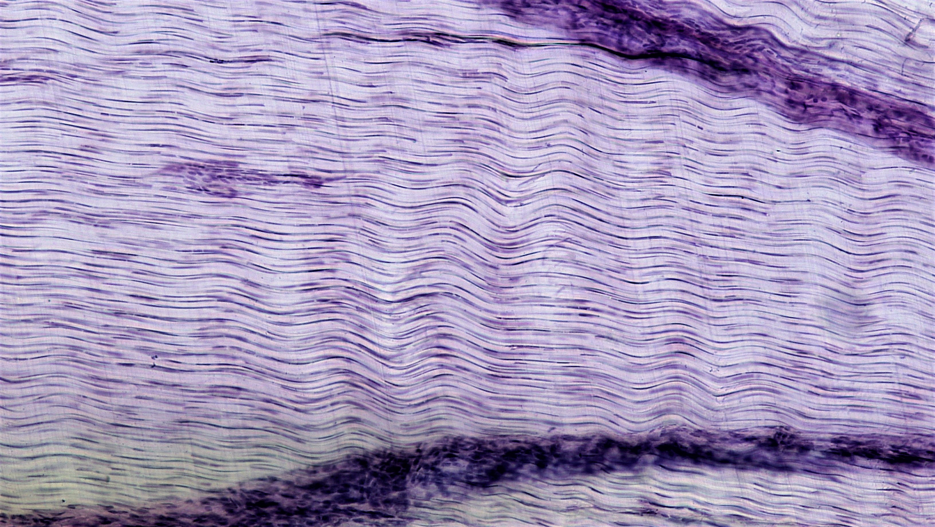 long section : tendon magnification: 100x